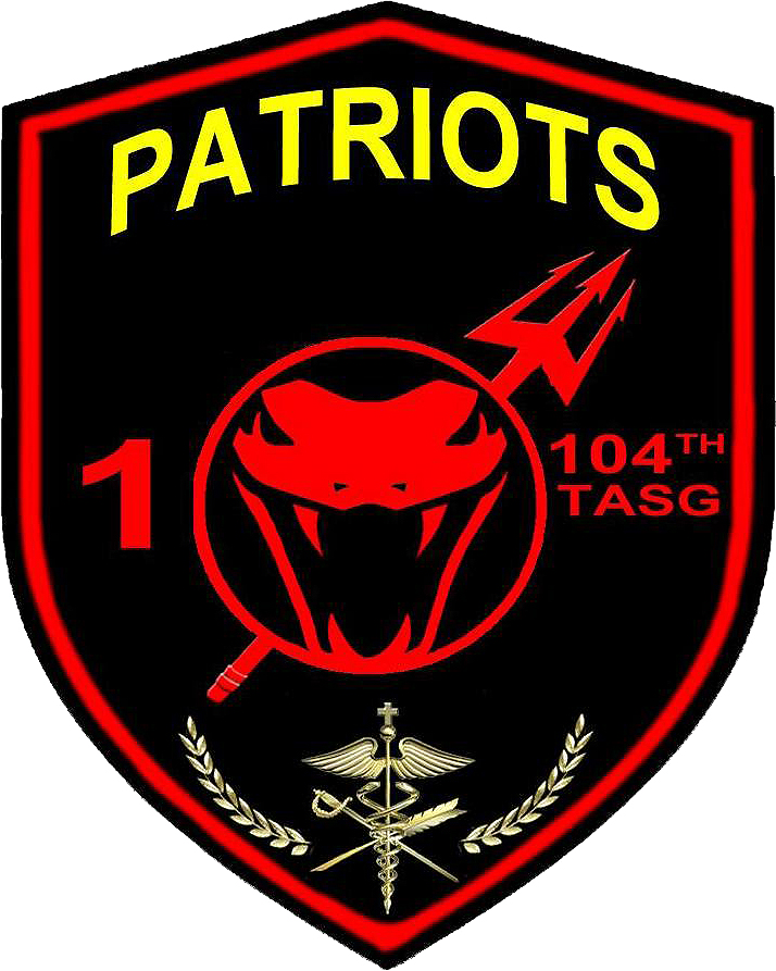 104 TASG Unit Seal.